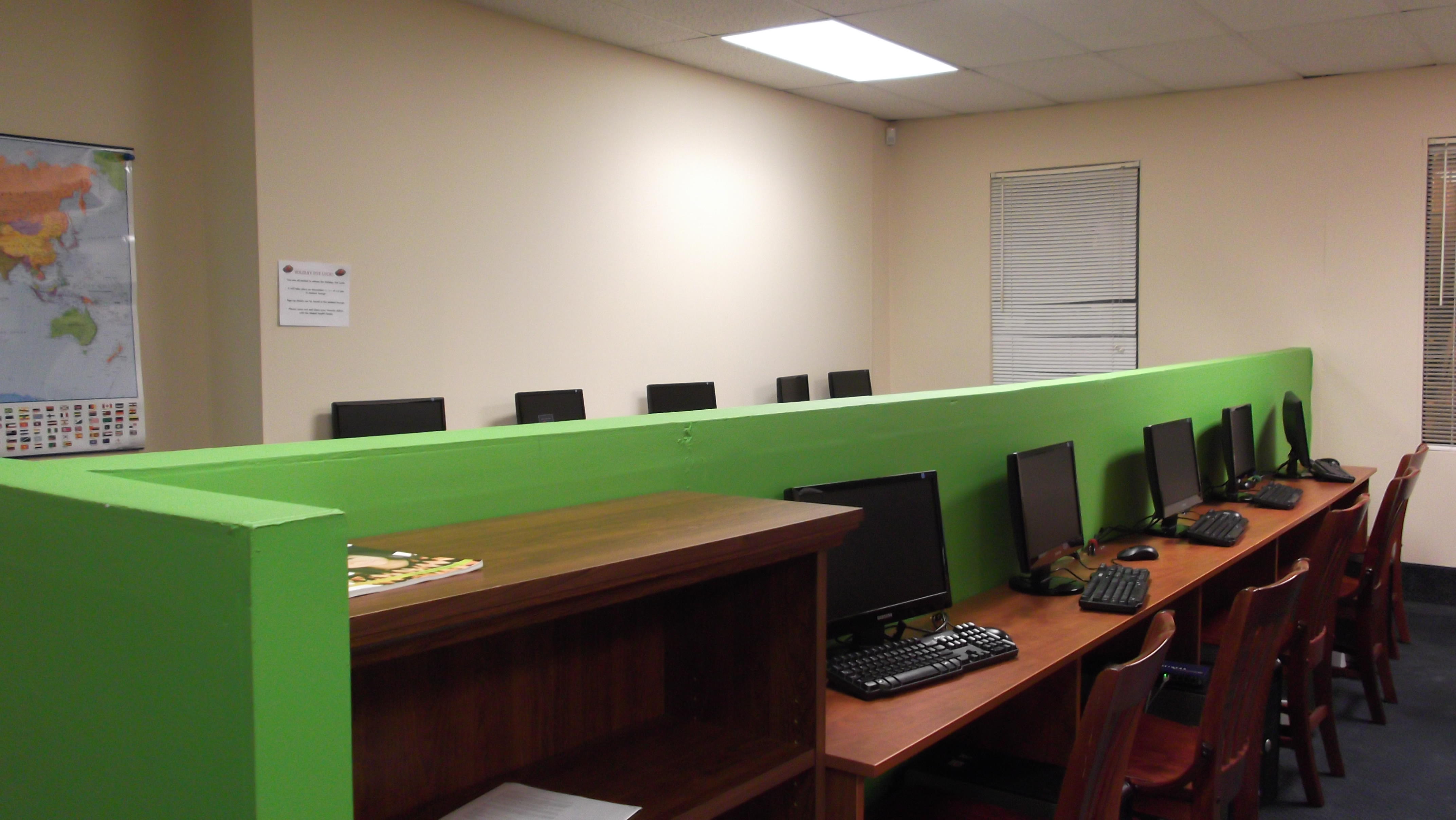 A computer lab in a small private college.